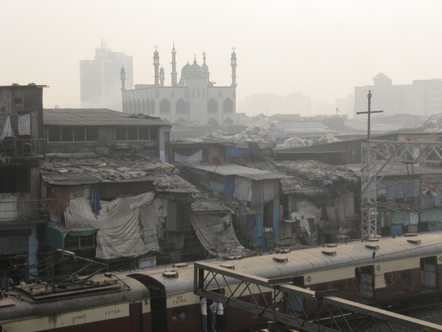 Dharavi slum hosts a large Muslim community. The first Muslims settled in Dharavi slums about 1887, when the British colonial government expelled tanneries from peninsular Bombay to the-then outskirts of the city. Today, estimates place 35% to 45% of the slum population is Muslim (compared to about a 14% average for Muslim population for all of India, Census 2011). The 450+ acre slum features many mosques for Islamic faithfuls. The picture shows shanty dwellings of the slum and a mosque in the distance. A railway track in the front, and train station nearby, offers mass transportation means for the slum residents. For % Muslim population and other pictures of Dharavi, see National Geographic article on Dharavi